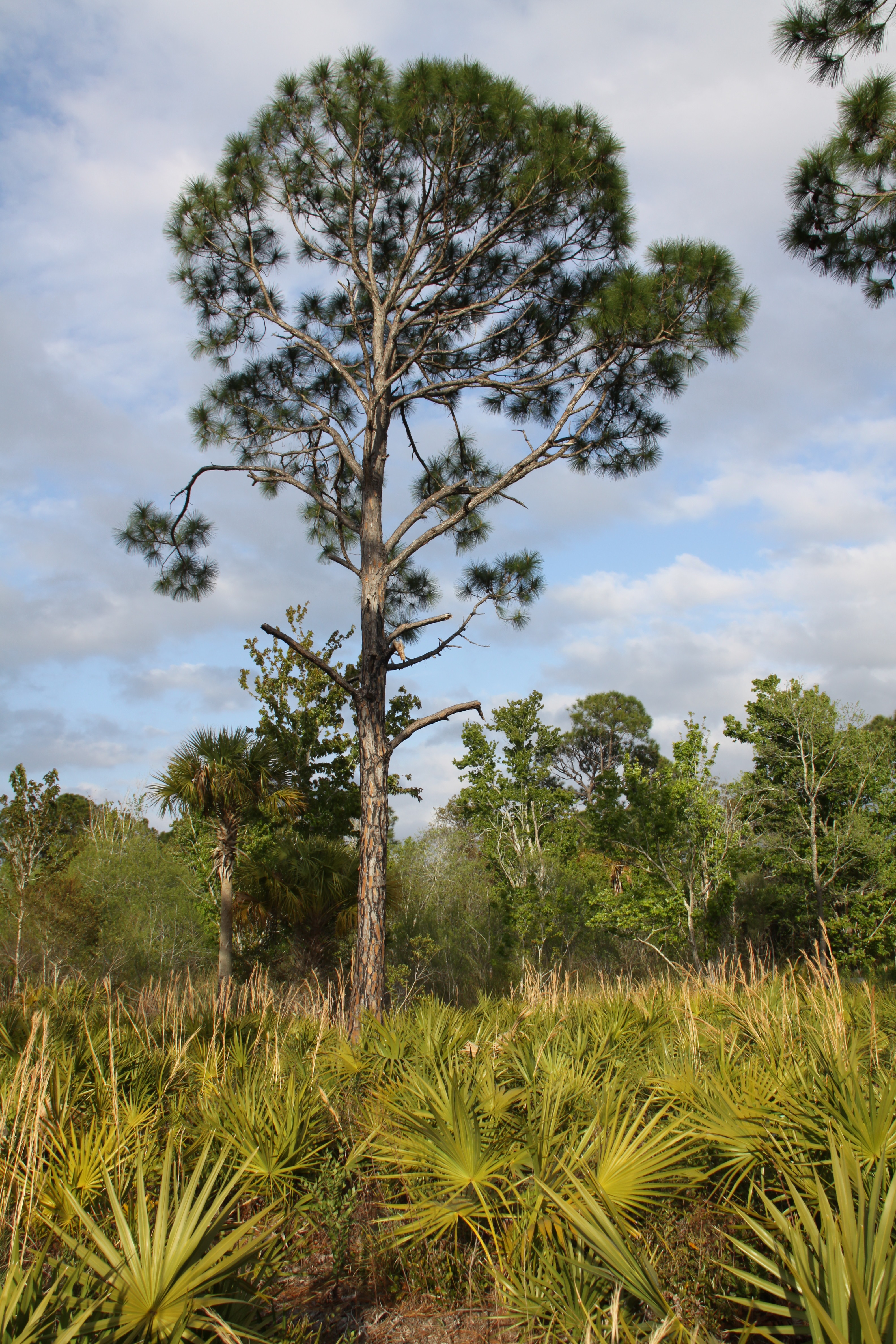 Pinus elliottii var. densa, Werner-Boyce Salt Springs State Park, Pasco County, Florida